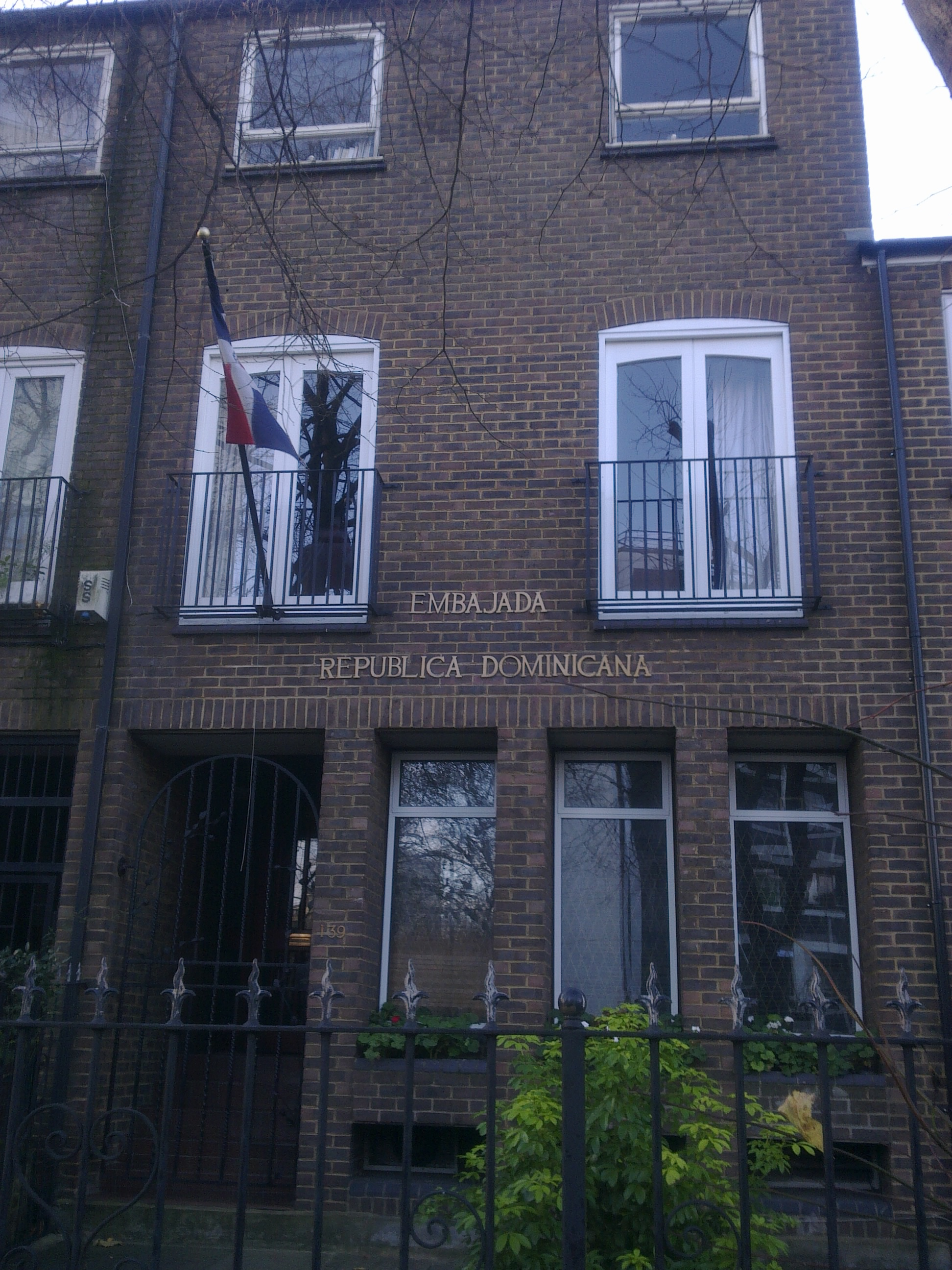 Embassy of the Dominican Republic in London